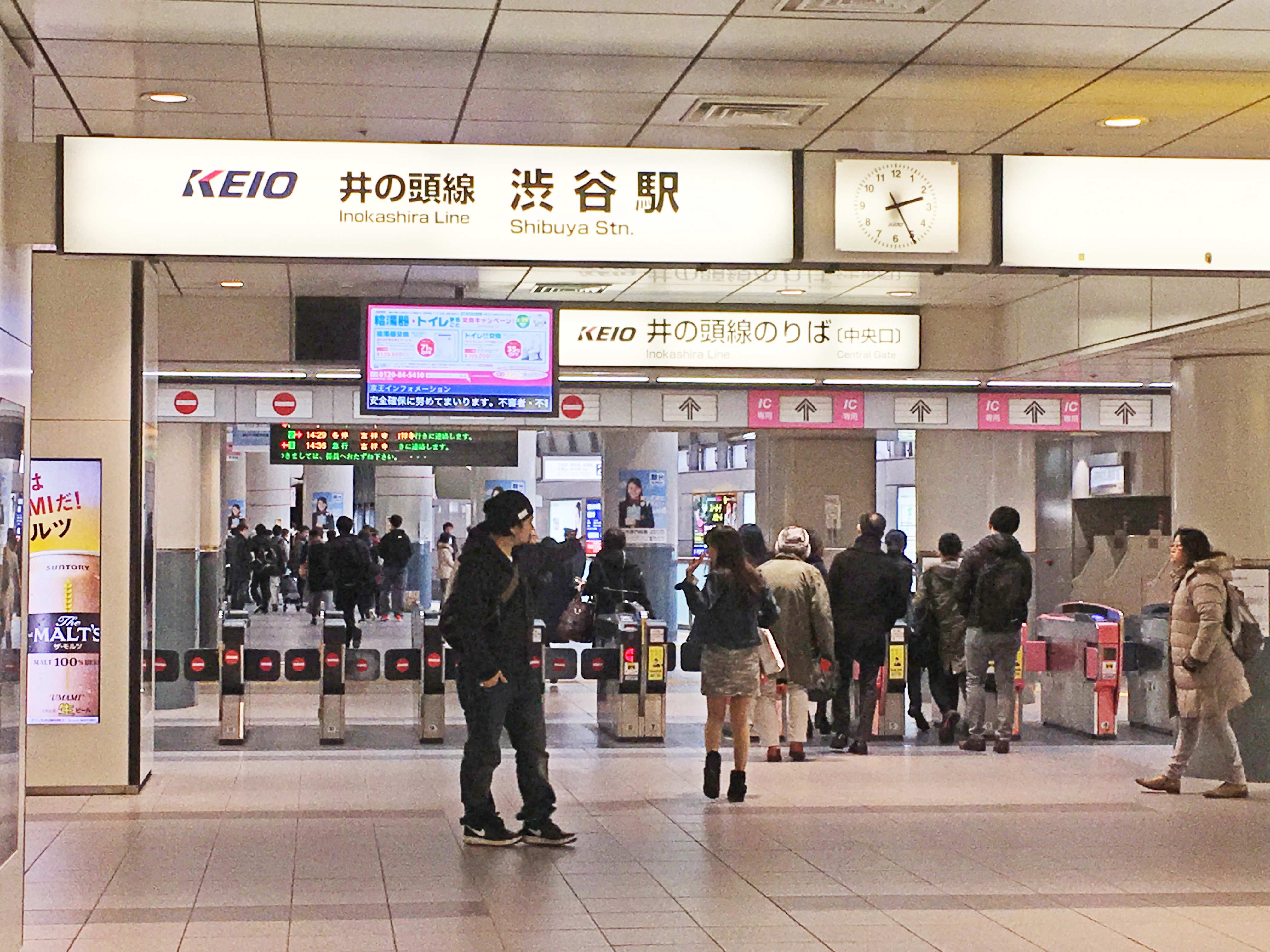 Exit for Keio Line